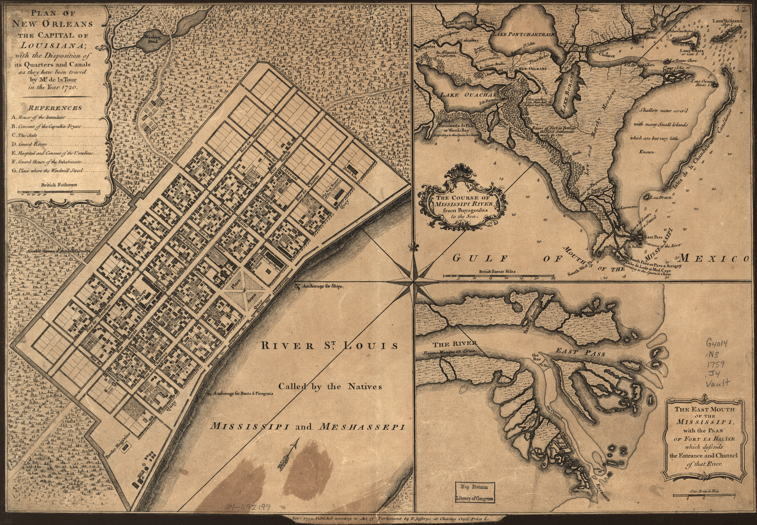 New Orleans was founded in 1718 by Jean Baptiste le Moyne, Sieur de Bienville, governor of the French colony of Louisiana. Bienville named the town after Philippe, Duke of Orléans, regent for King Louis XV. This map, published in London in 1759 by Thomas Jefferys, displays the focus and symmetry of the town plan, which was designed by or under the direction of Bienville. The “Mr. de la Tour” in the title refers to one of the earliest detailed manuscript plans of the city and denotes Pierre Le Blond de la Tour (circa 1670–1723), a Frenchman who was the chief royal engineer in Louisiana. Important places, such as the house of the intendant, the jails and guard house, and the hospital and convent of the Ursulines, are marked on the legend. The Mississippi River is referred to by the French designation “River Saint Louis,” but the indigenous American name that ultimately would prevail also is given, spelled as both “Mississippi” and “Meshassepi.” The inset maps show the course of the Mississippi from Bayagoulas to the Gulf of Mexico, and the east mouth of the Mississippi with a plan of Fort Balise, the French bastion defending the entrance to the river. The "Bayagoulas" were Indians living near the present-day town of Bayou Goula, Louisiana, in Iberville Parish. Their name was derived from the Choctaw or Mobilian language meaning "bayou people.” Cities and towns; Forts and fortifications; Mississippi River